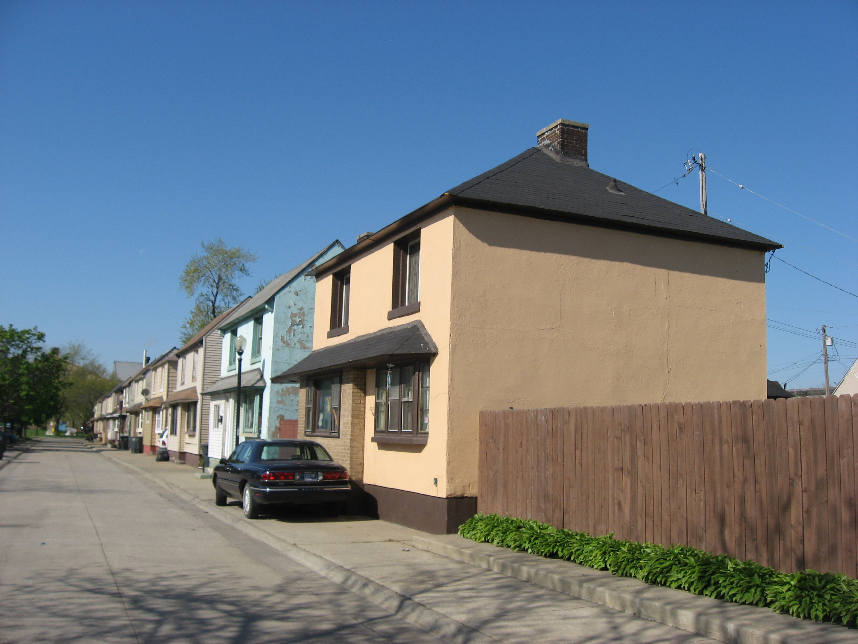 Houses on the northwestern side of Park Street in the Marktown neighborhood of East Chicago, Indiana, United States, seen from the Spruce Avenue intersection. This block is part of the Marktown Historic District, a historic district that is listed on the National Register of Historic Places.